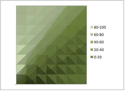 result with grid size 8X8